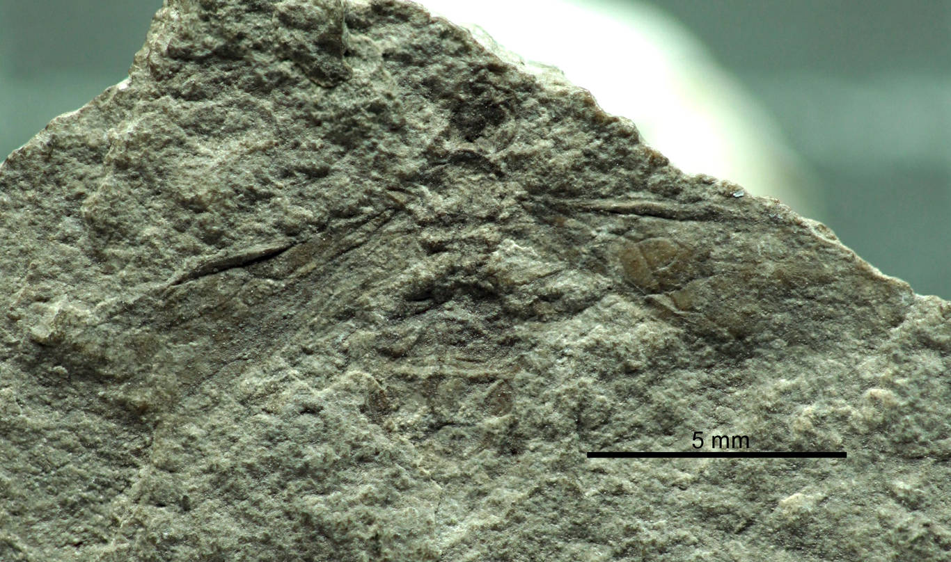 Dorsal view of the Emplastus miocenicus holotype queen, formerly identified by Oswald Heer as a specimen of Formica globularus. Universalmuseum Joanneum Graz specimen UMJ77527. Universalmuseum Joanneum Graz, Styria, Austria. Burdigalian; Radoboj deposits; Radoboj area, Krapinsko-Zagorska, Croatia.